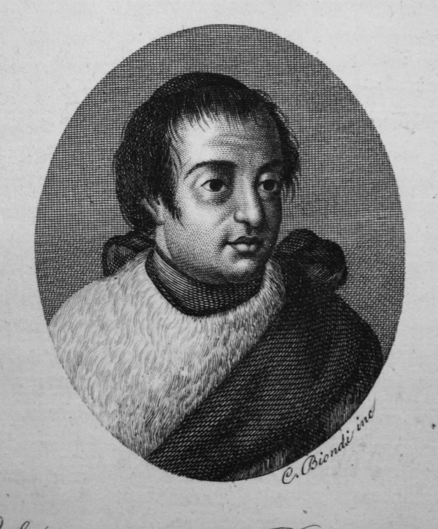 Vitanglo Bisceglia